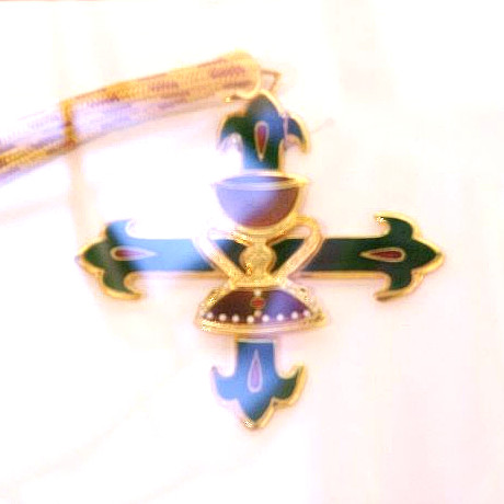 Photo of the Order of the Holy Grail belonging to Tadeusza Chciuka-Celta, held in Łowiczu Museum